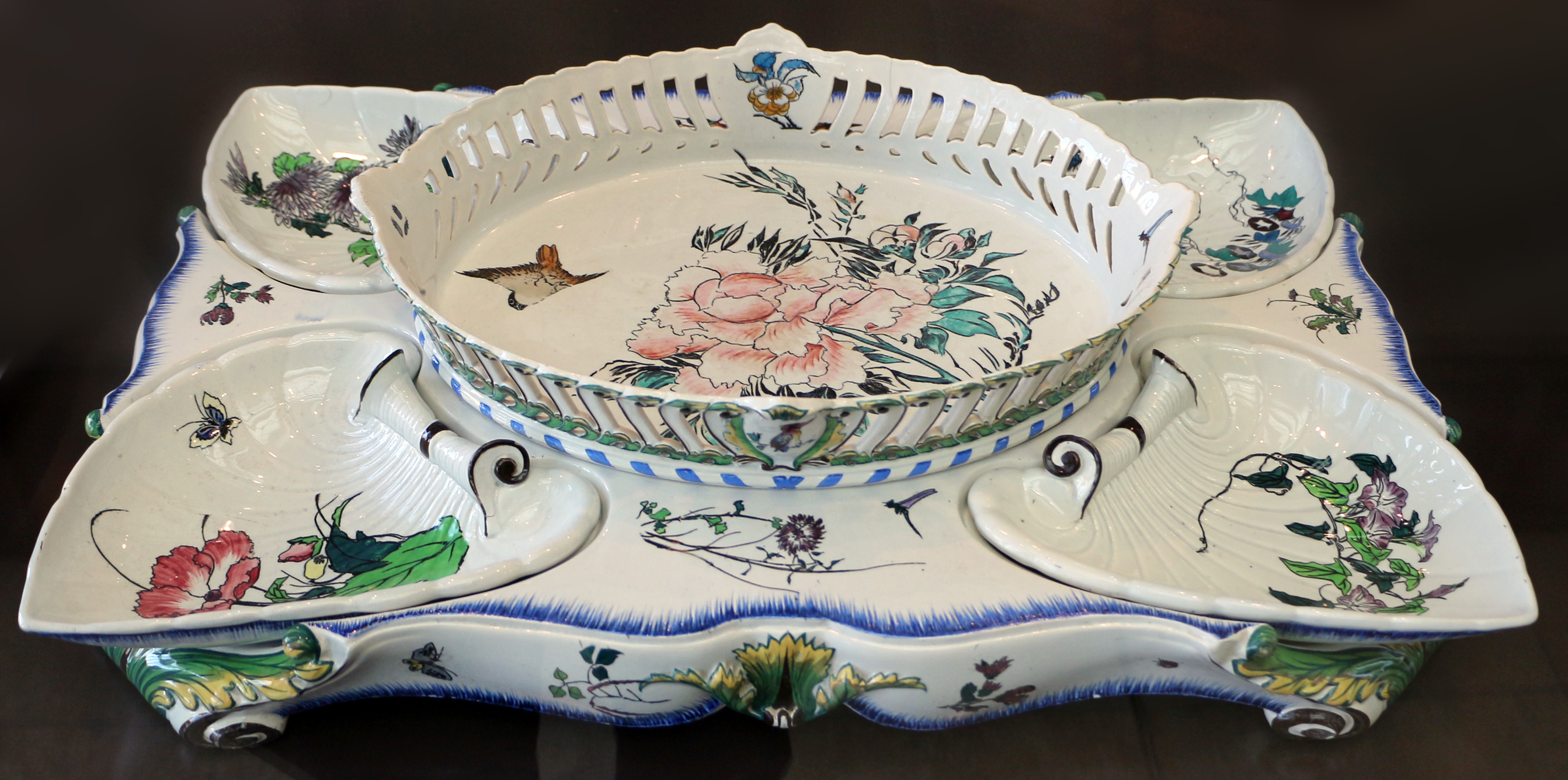 Decorative arts in the Musée d'Orsay